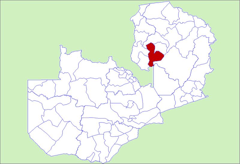 Samfya District, Zambia. Adapted from Rarelibra's work in Wikimedia Commons.